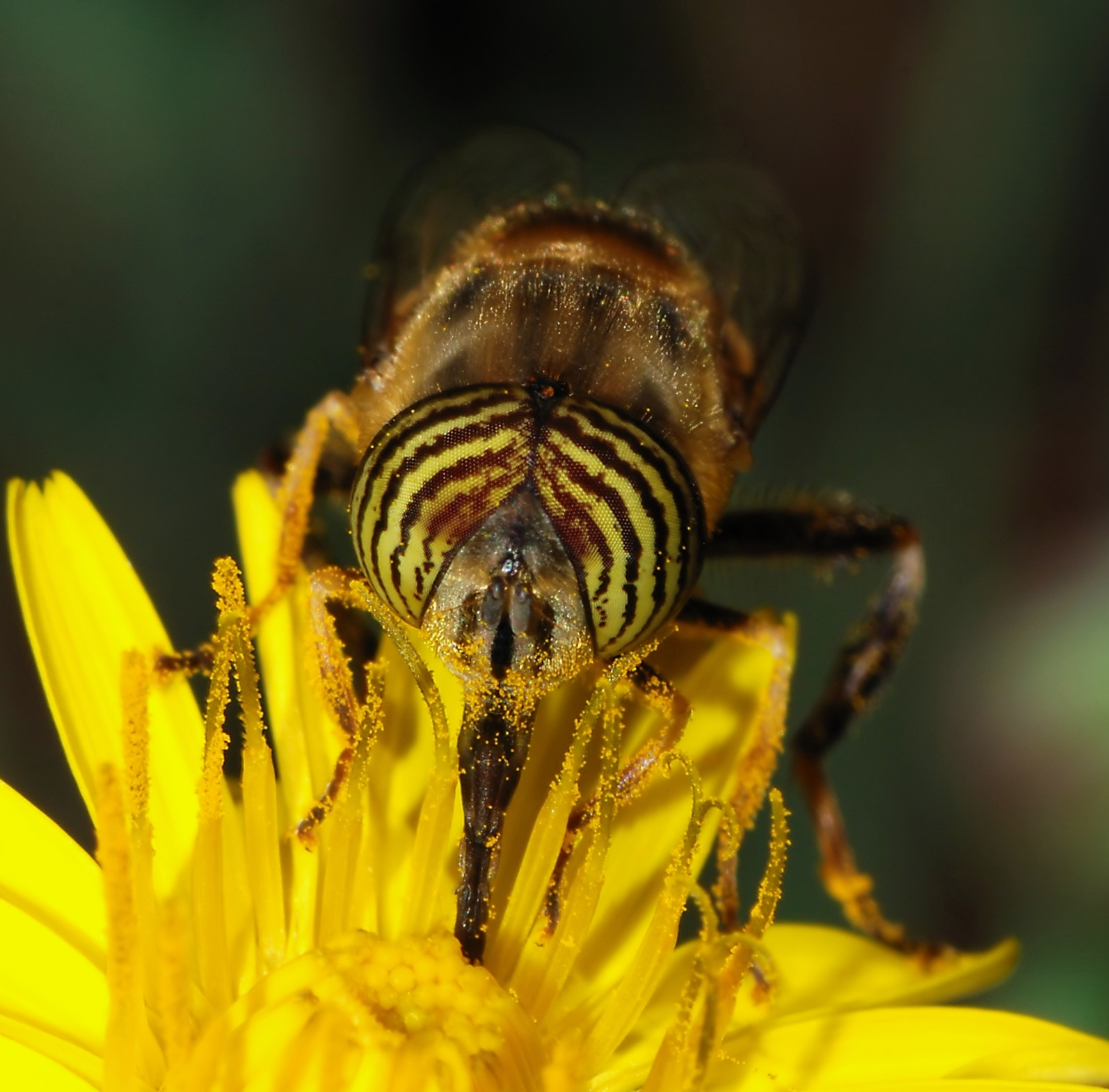 The head of a male hoverfly (Eristalinus taeniops).